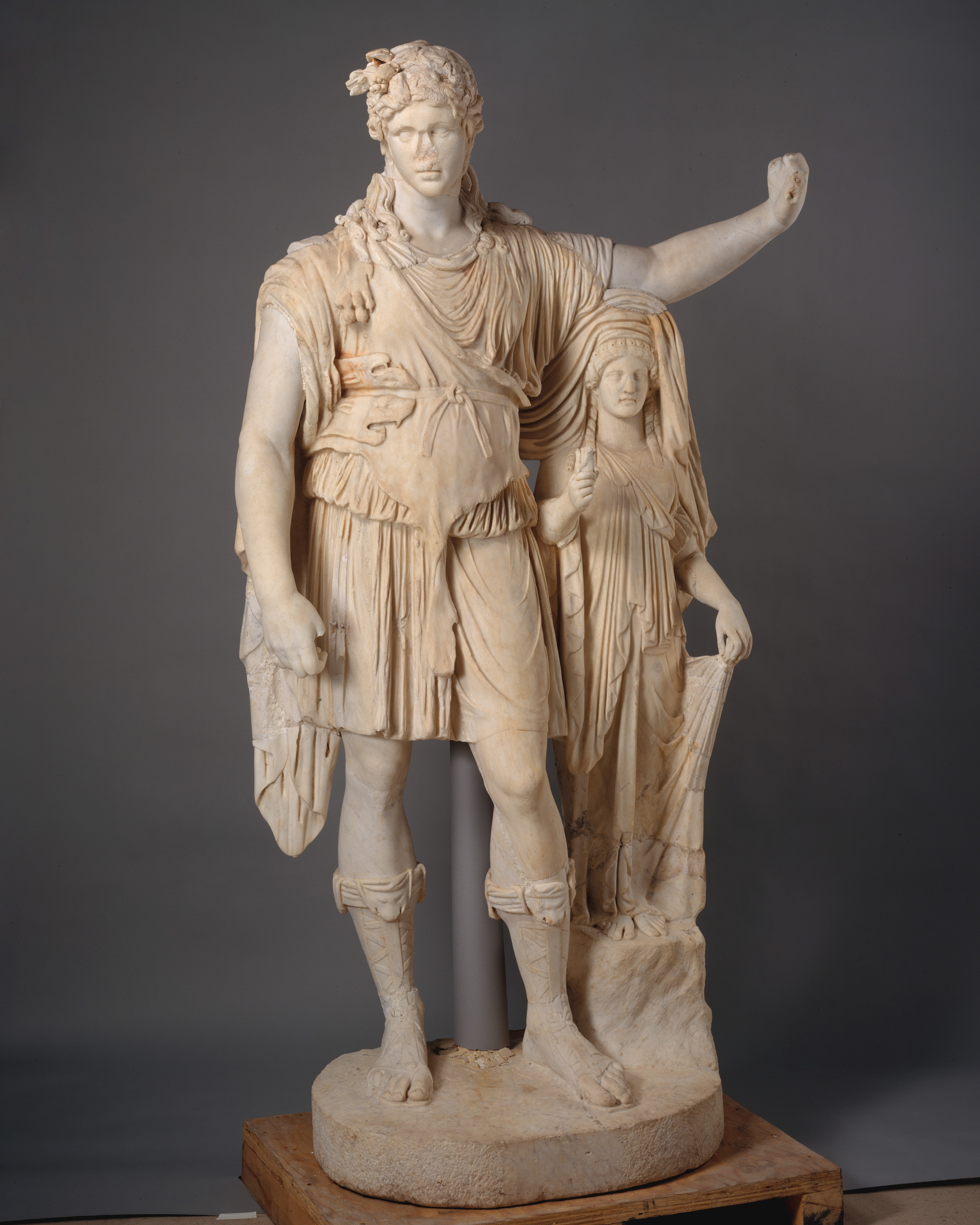 Roman; Statue of Dionysos leaning on a female figure ("Hope Dionysos"); Stone Sculpture